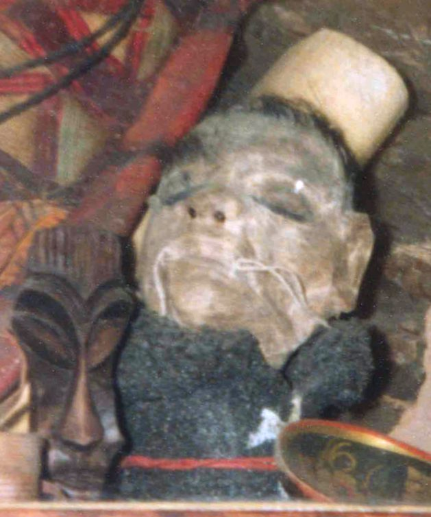 Shrinkhead